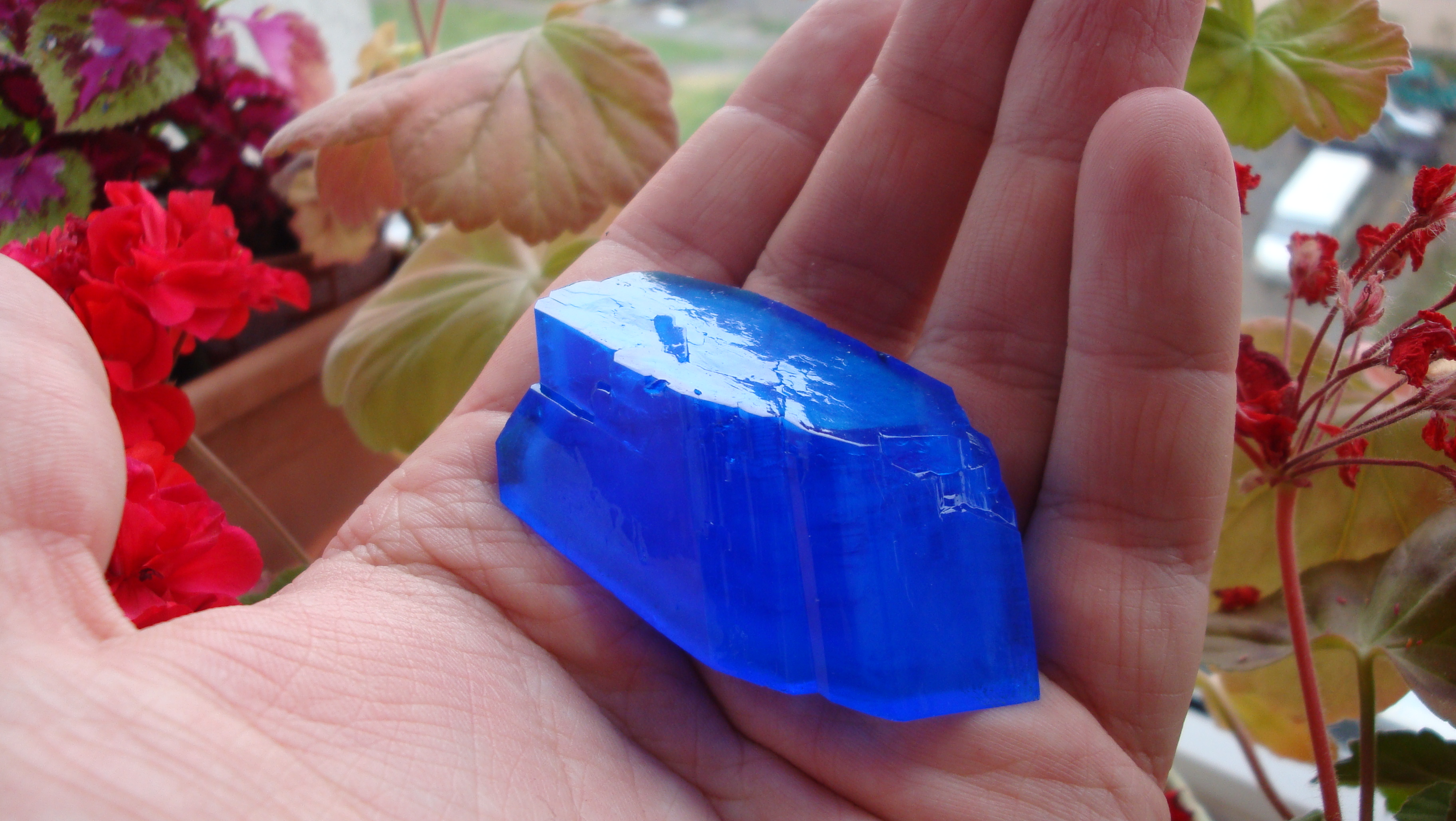 Copper sulfate monocrystal. Crystal was grown in home conditions.